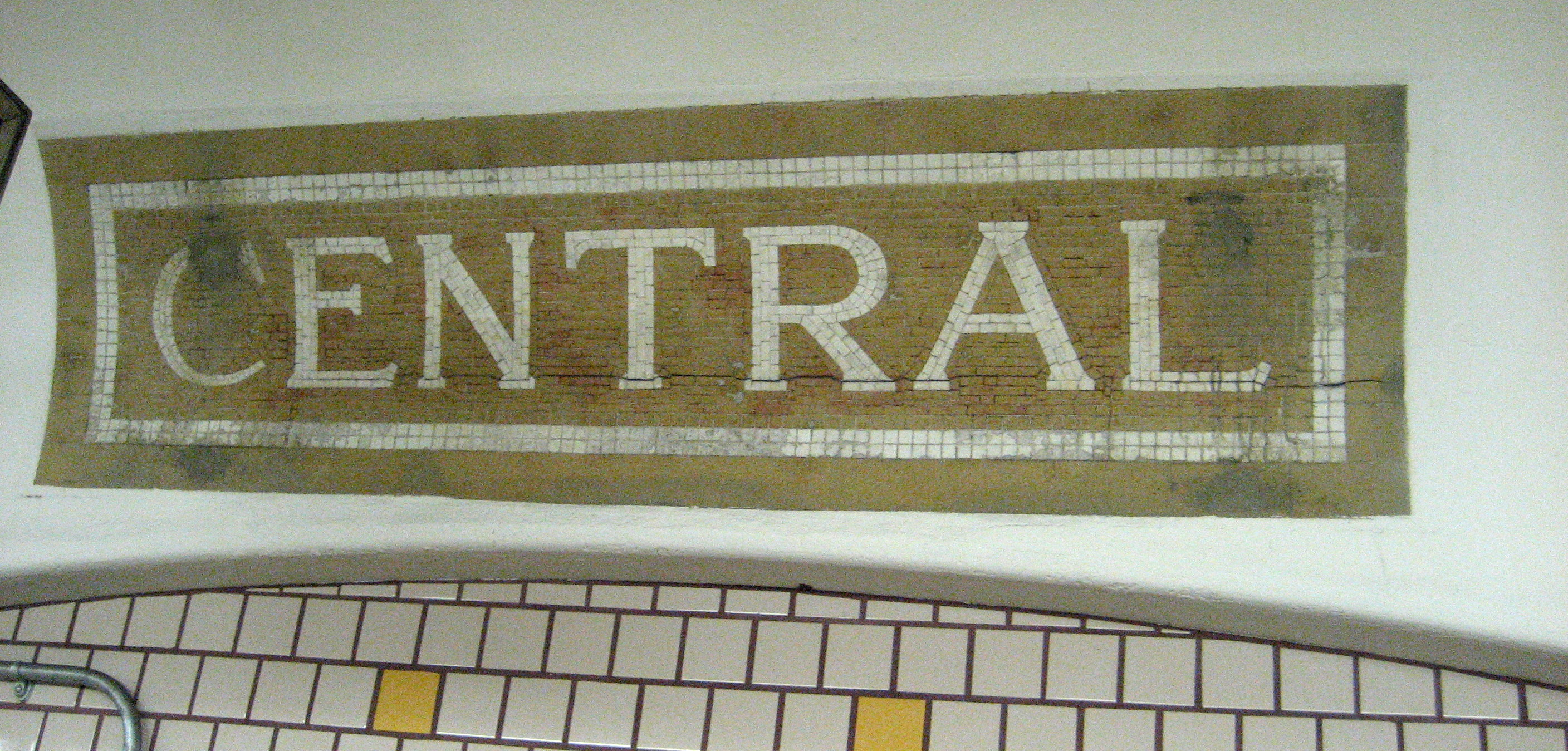 Cambridge, Massachusetts: Tiles in "Central" MBTA station